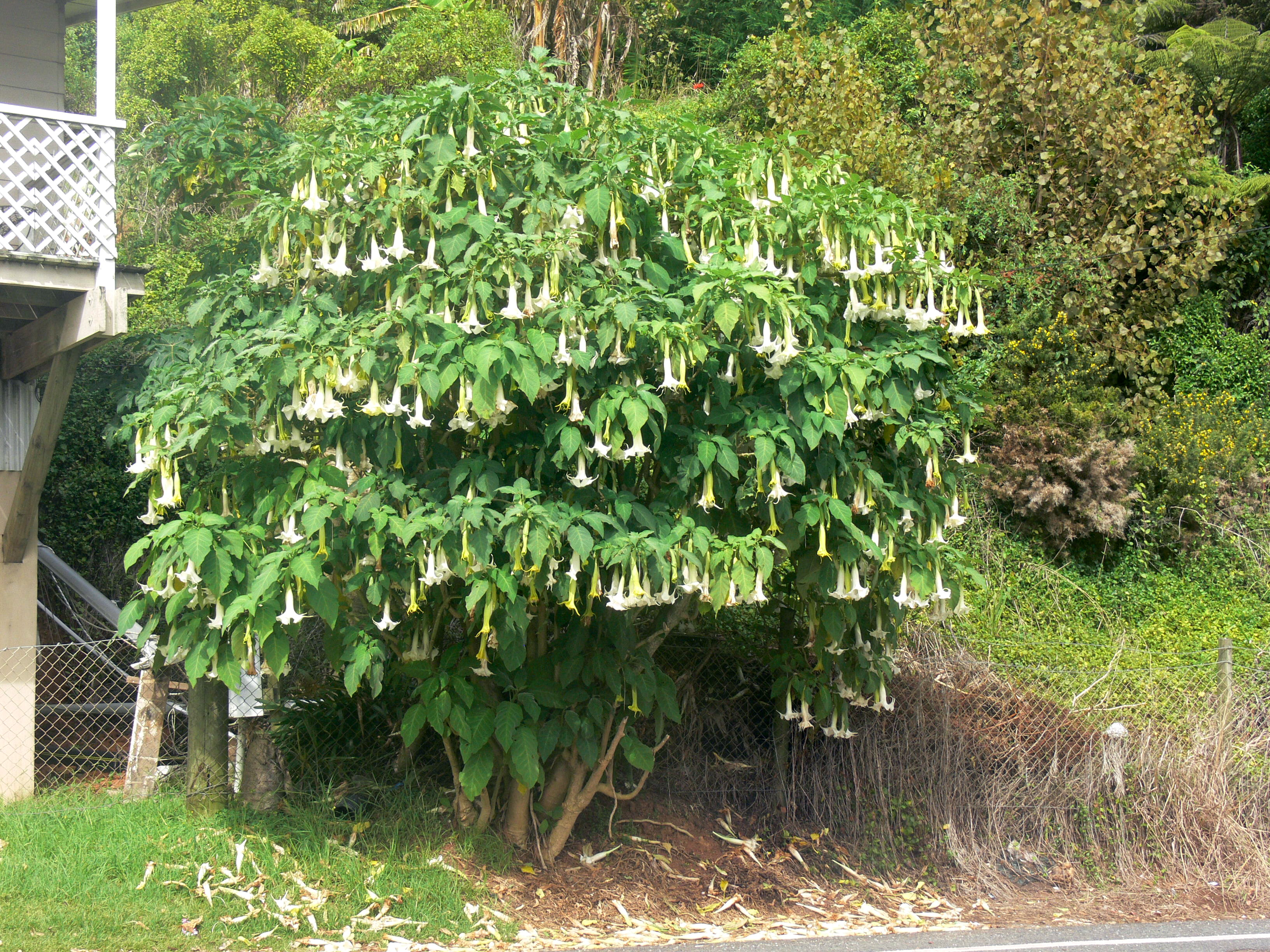 Brugmansia x candida showing characteristic large pendulous flowers ("Angel's Trumpets"). Roadside plant, Mangonui, North Island, New Zealand.